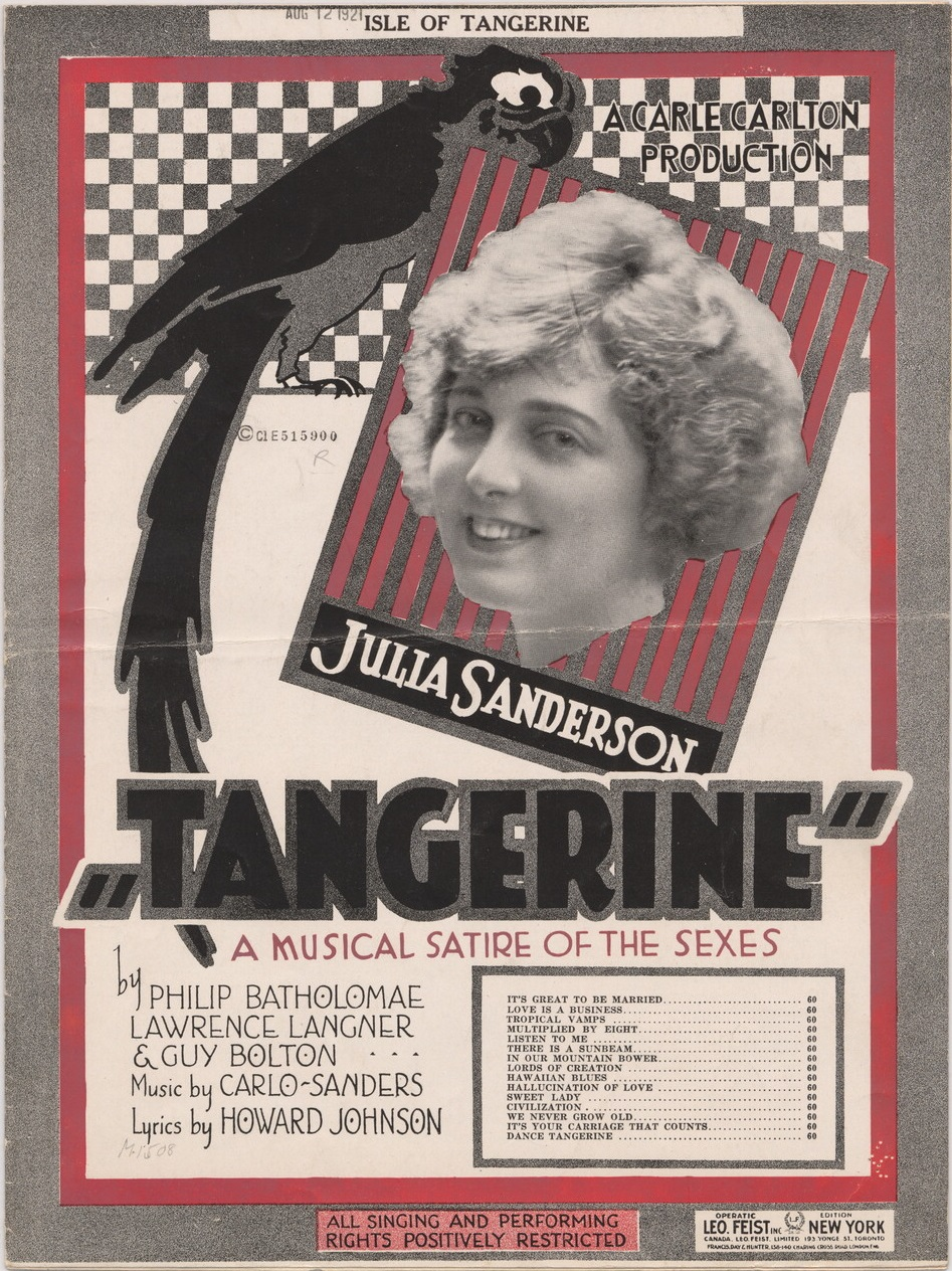 Tangerine (1921), sheet music cover. Leo Feist, Inc: New York City. Carlo-Sanders & Howard Johnson.